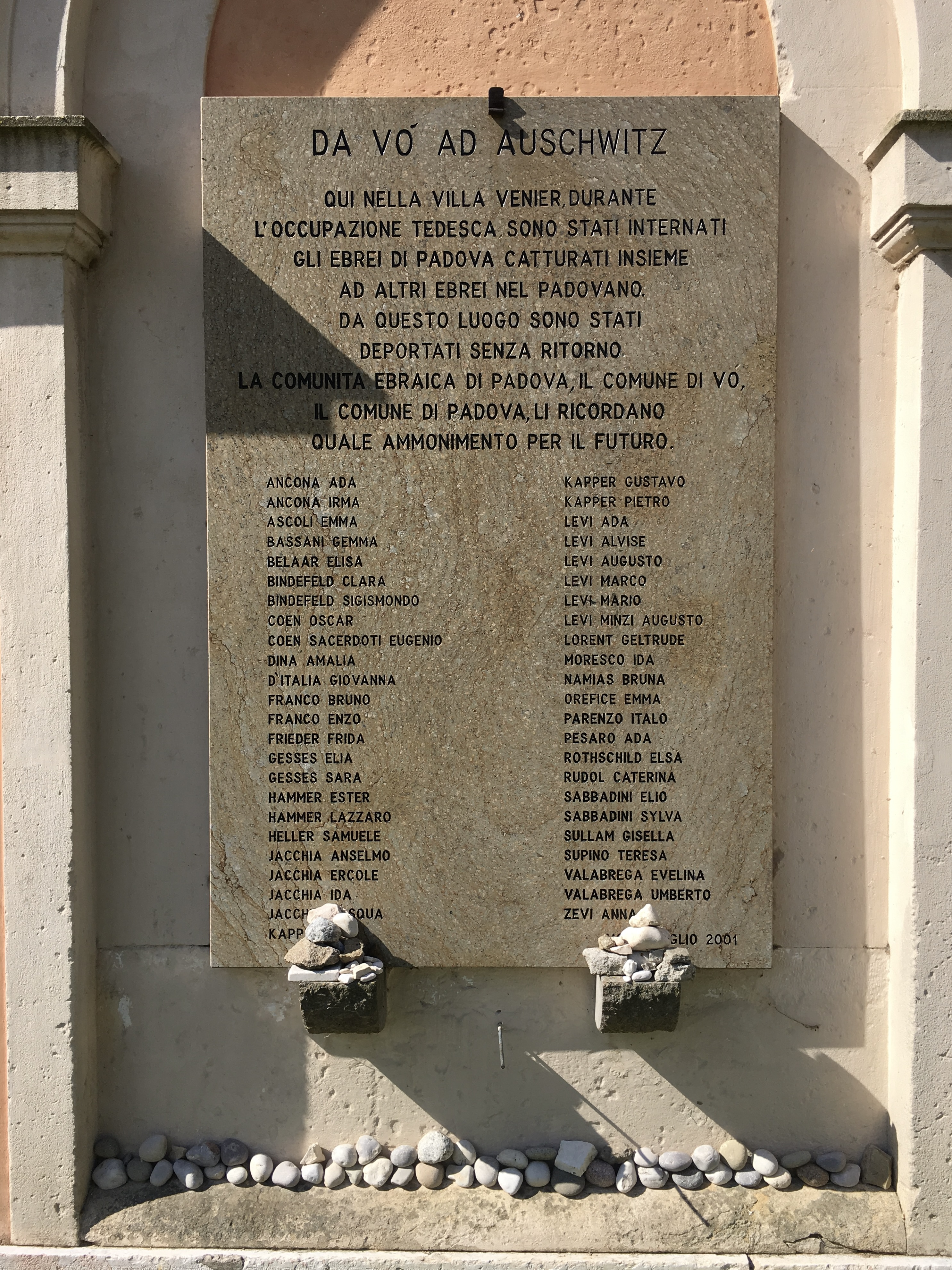 Memorial for deported Jews from Vo' Vecchio, Italy